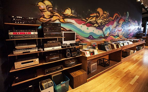 Shuga Records Storefront